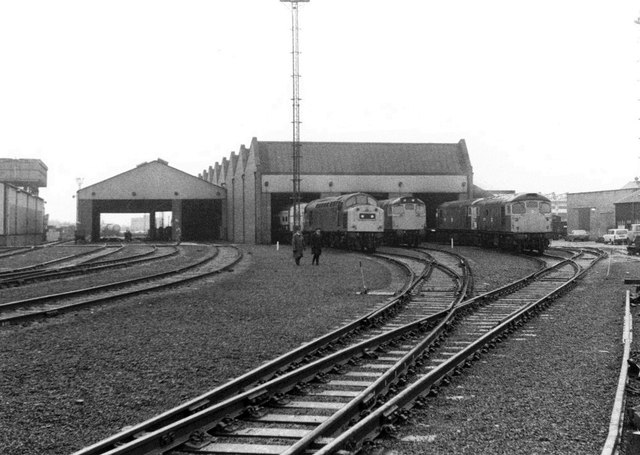 Locomotives at Haymarket Depot, 1983